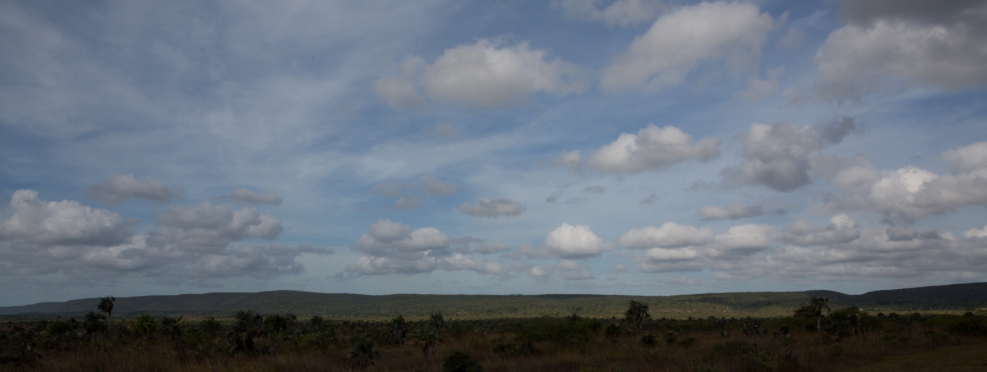 View from the south to the Sierra de Cubitas, province Camagüey, Cuba